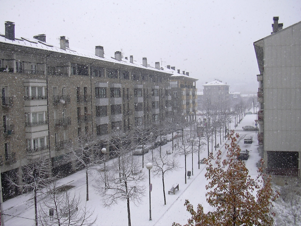 Snowfall in La Seu d'Urgell, Catalonia, Spain.